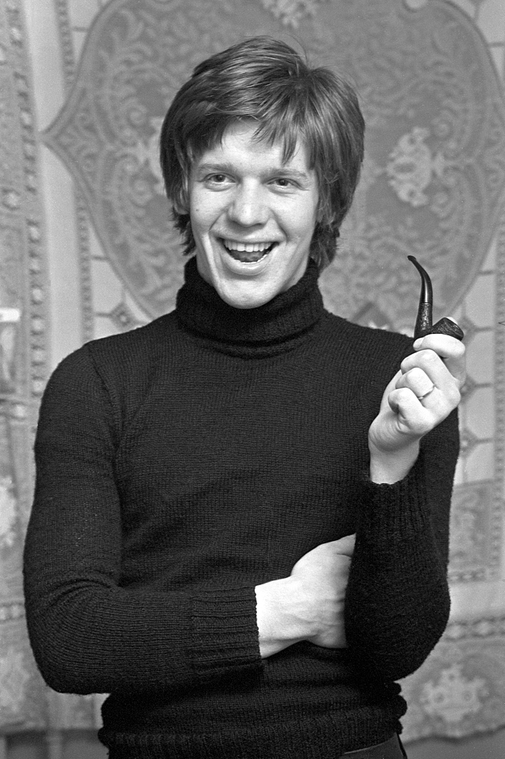 Finnish poet Teemu Hirvilammi, 1974.